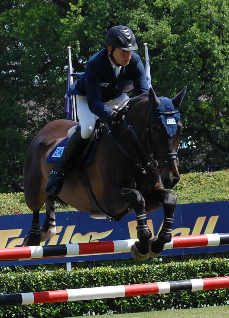 Lars Nieberg with Lord Luis, "Championat von Hamburg", CSI 5* Hamburg 2011